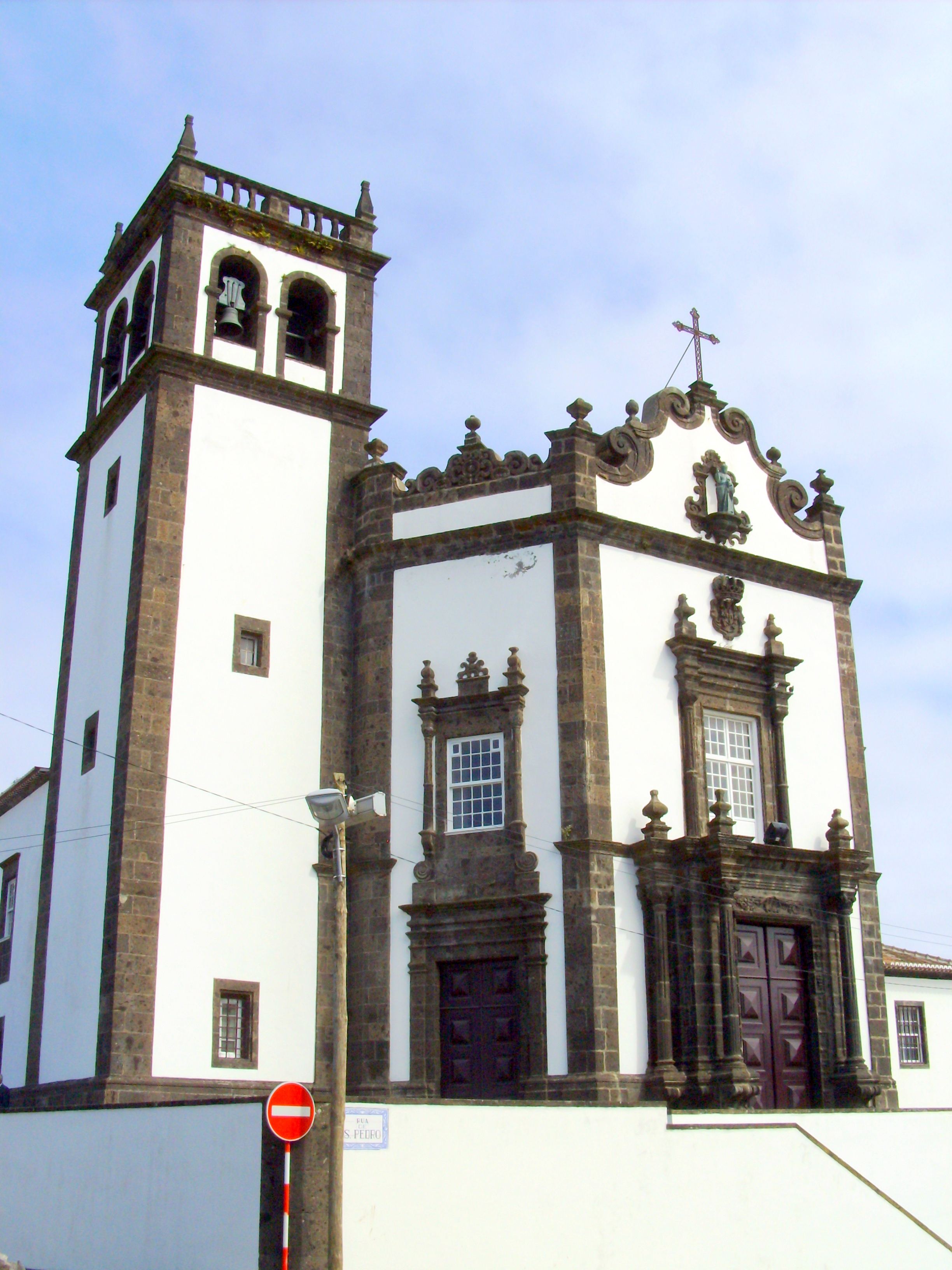 Church of São Pedro, São Pedro, Ponta Delgada, São Miguel (Azores), Portugal